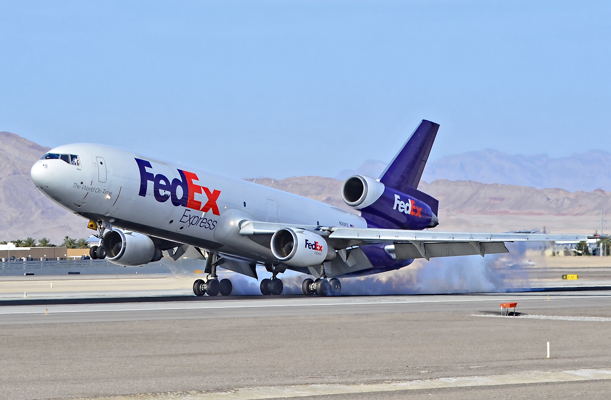 McCarran International Airport (KLAS) Las Vegas, Nevada TDelCoro April 17, 2014